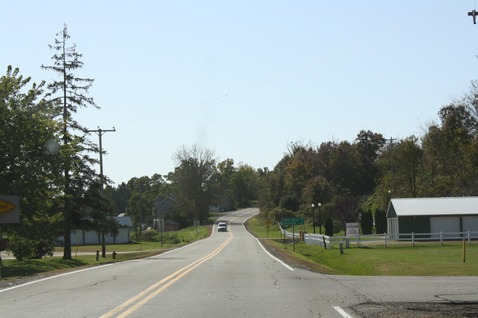 Downtown Melrose, Wisconsin on Wisconsin Highway 54.